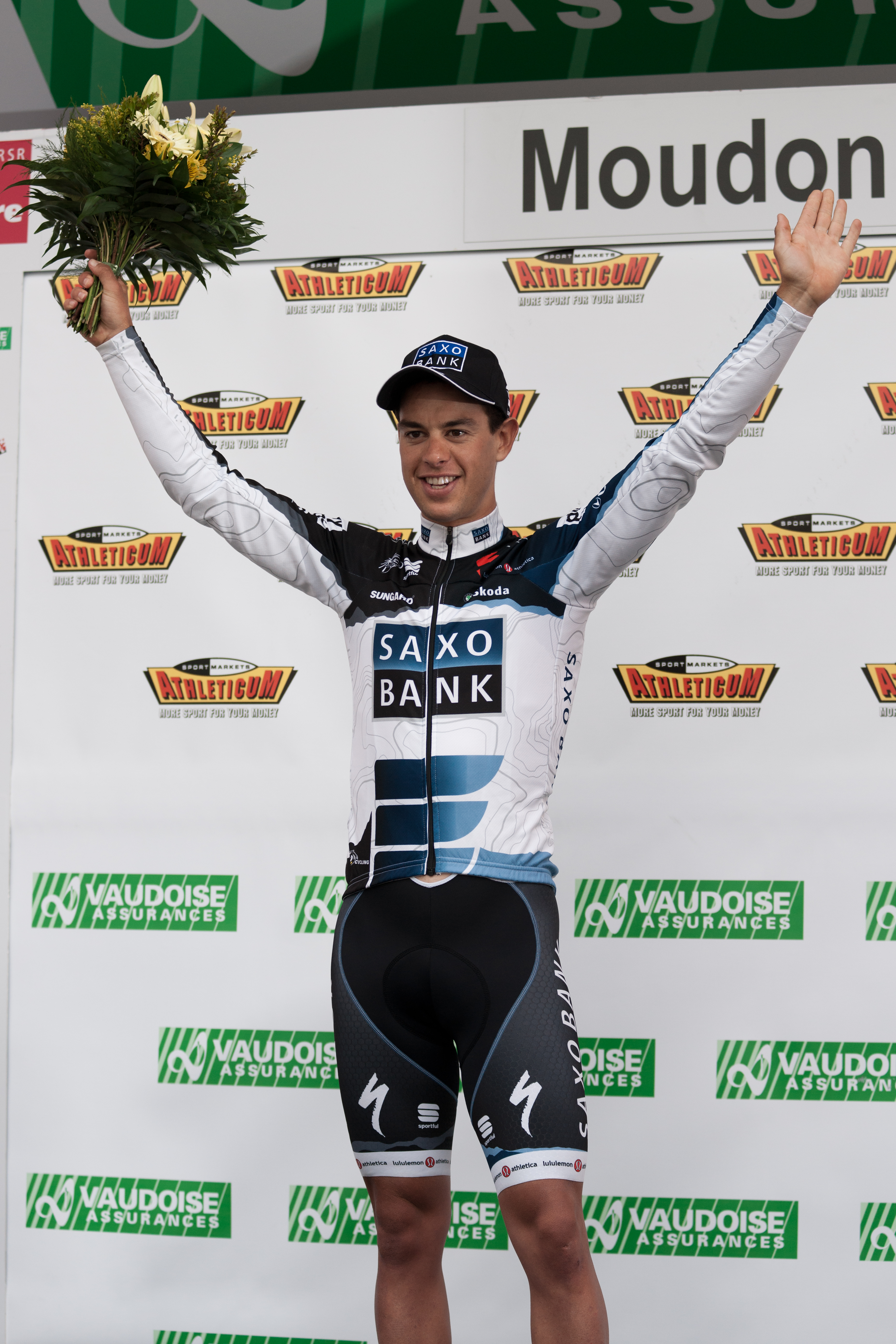 Richie Porte on the podium of the 3rd stage of the Tour de Romandie 2010.